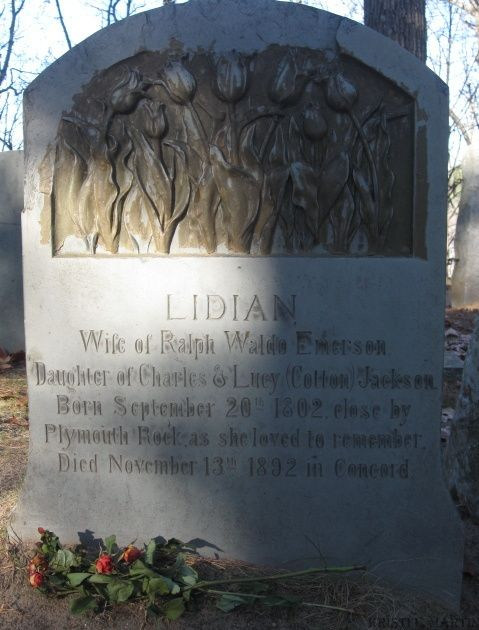 Side one of the gravestone of Lidian Jackson Emerson, Sleepy Hollow Cemetery, Concord MA